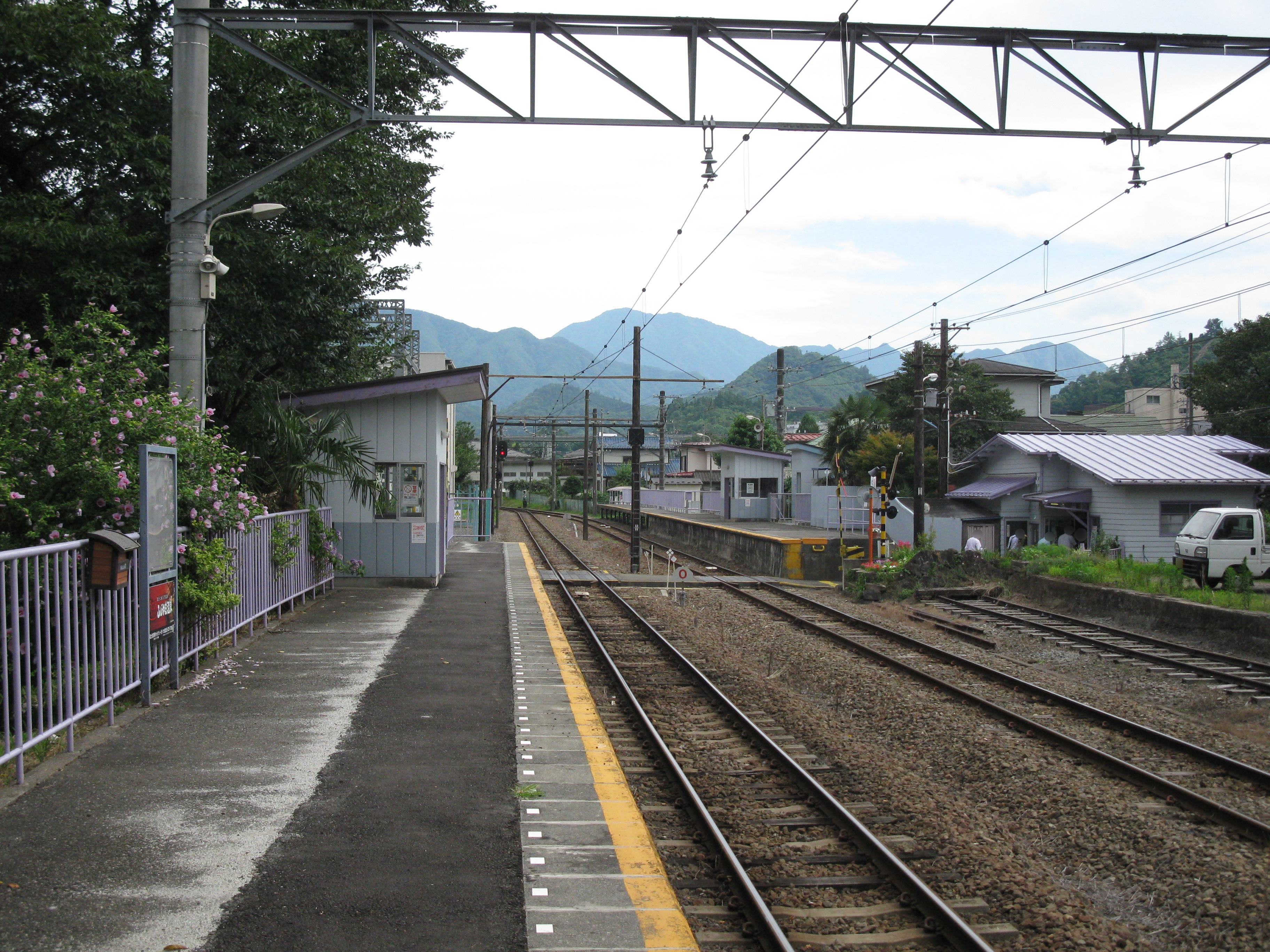 Tanokura Station platform (for Kawaguchiko Station) (Fuji Kyuko Ōtsuki Line)